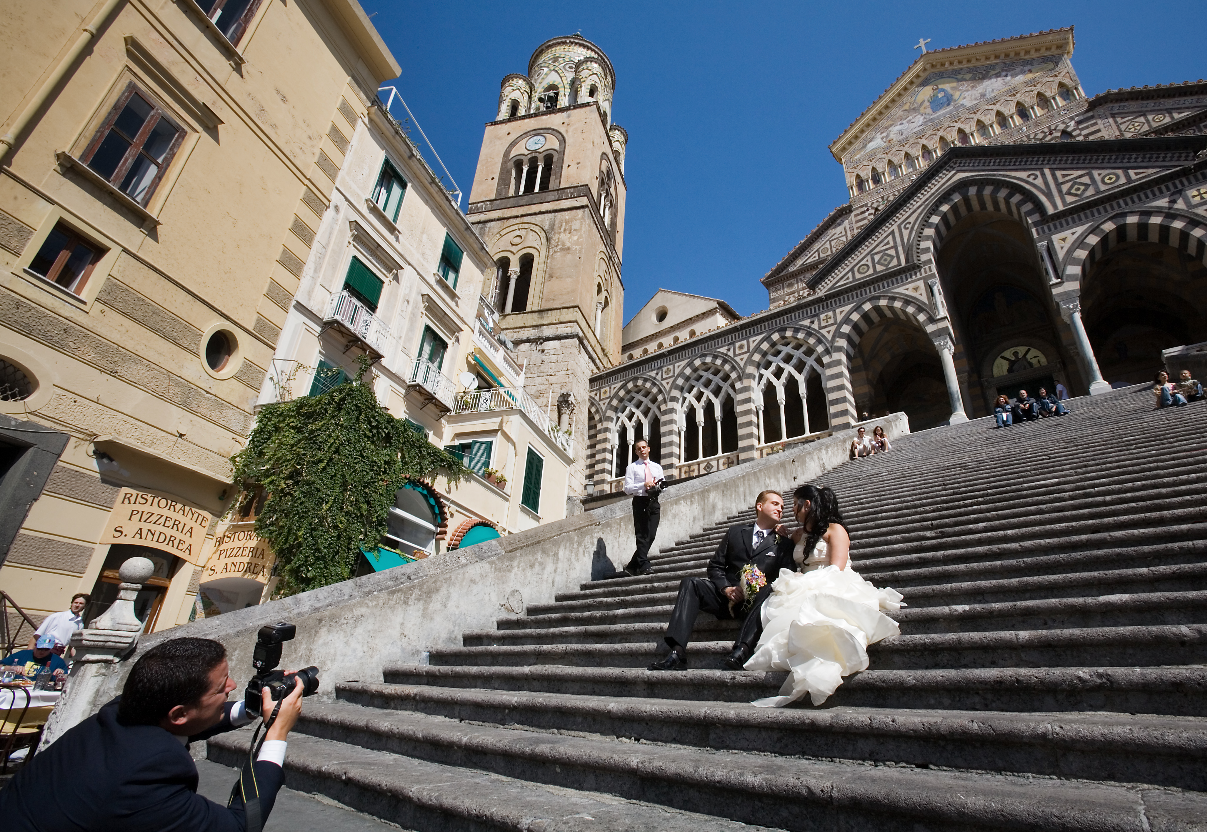 A wedding in Il Duomo (Cathedral) Amalfi, Italy